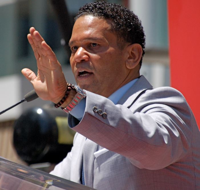 Benny Medina at a ceremony for Jennifer Lopez to receive a star on the Hollywood Walk of Fame.